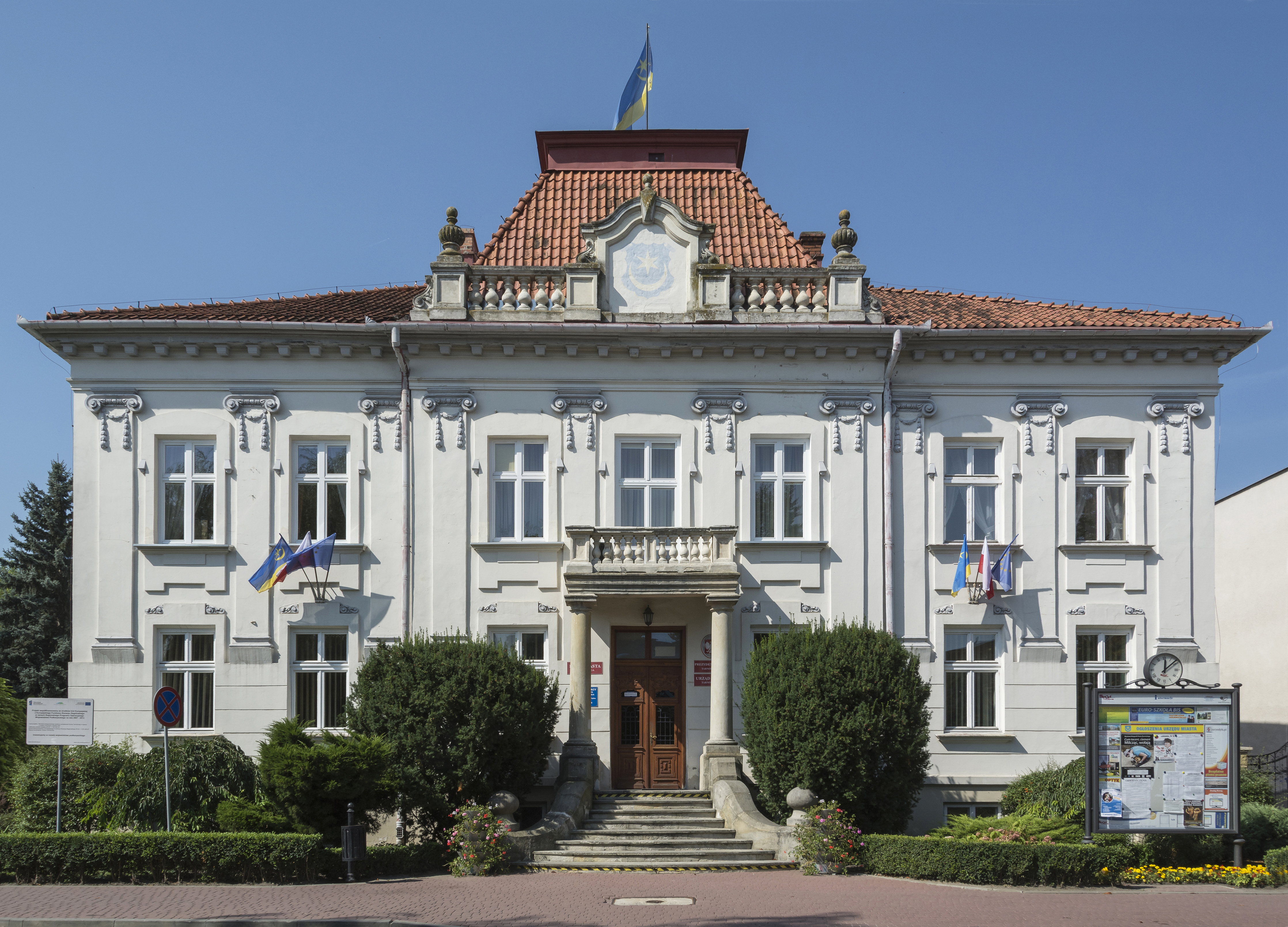 Town hall in Tarnobrzeg